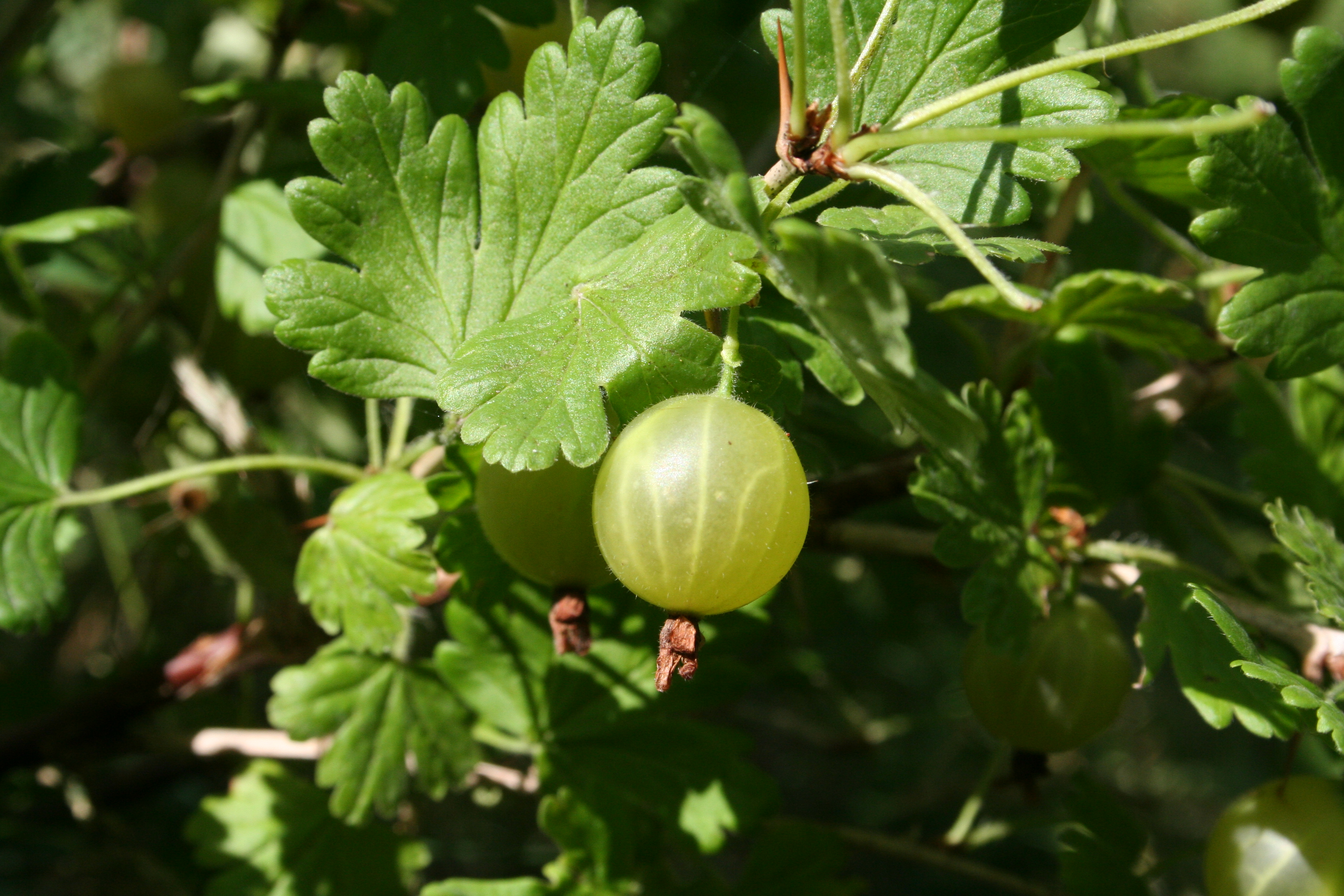 Gooseberry - the fruit is unripe